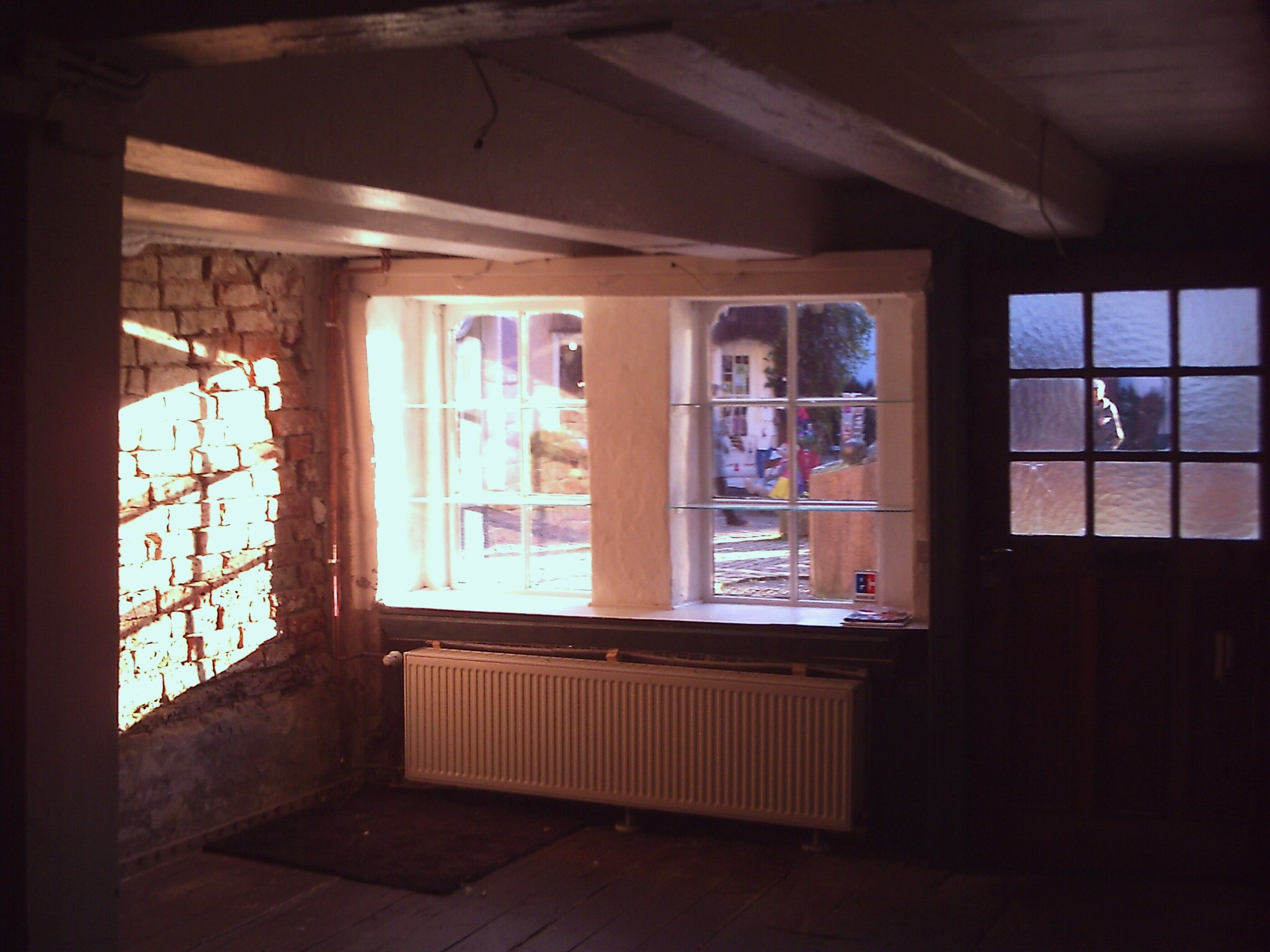 Inside the old Shipper's house in Bremen, from the groundfloor